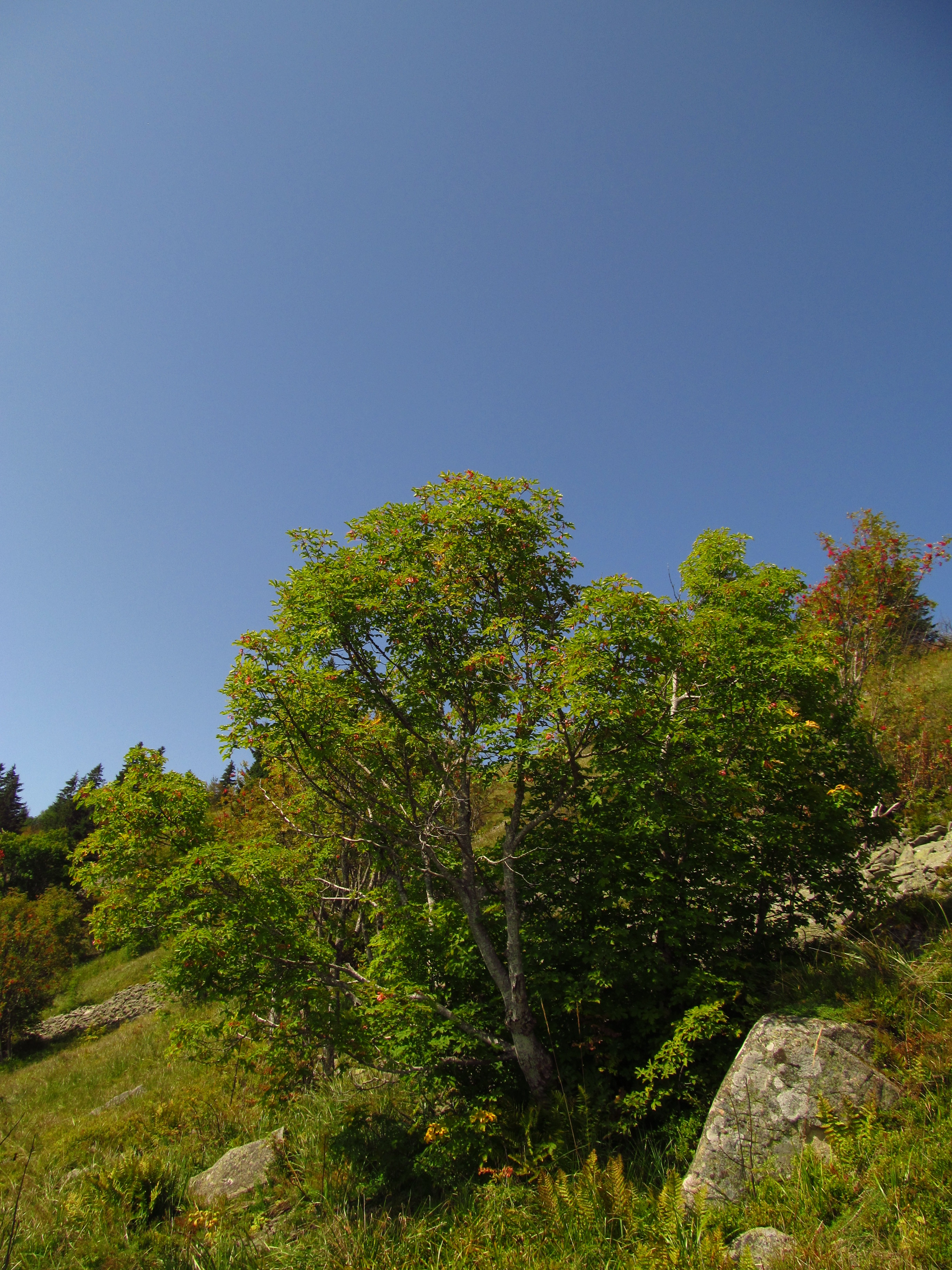 Heldreich's maple, Greek maple or Balkan maple